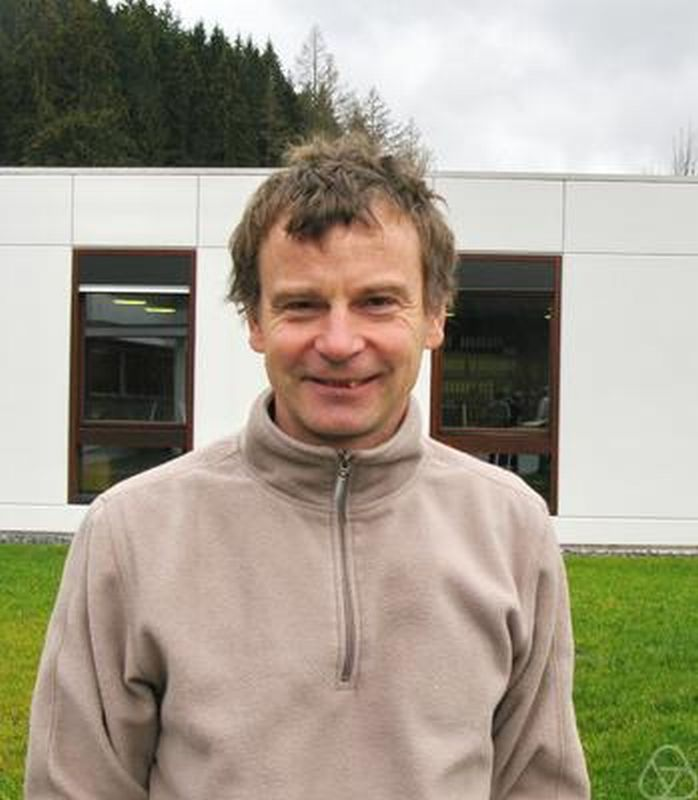 Ulrich Bunke, Oberwolfach 2011